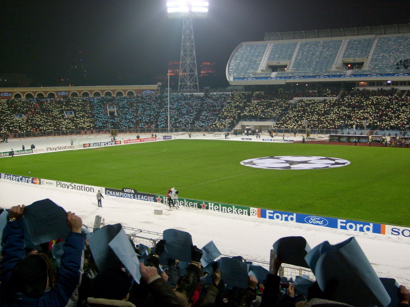 Dynamo stadium, Minsk, 25-11-2008. UEFA Champions league match BATE-Real